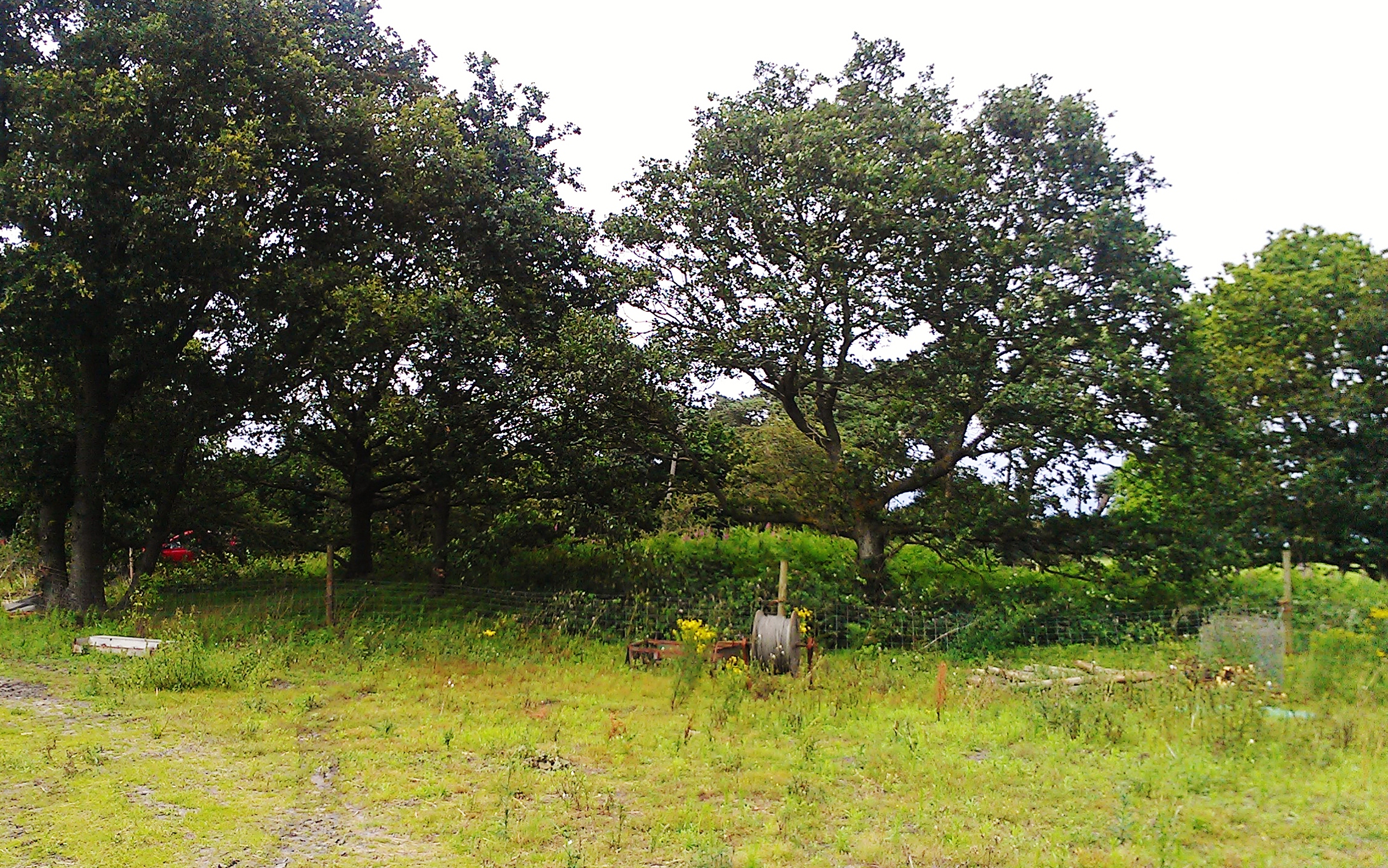 One of the Snape ship burial mounds, in the summer of 2012.